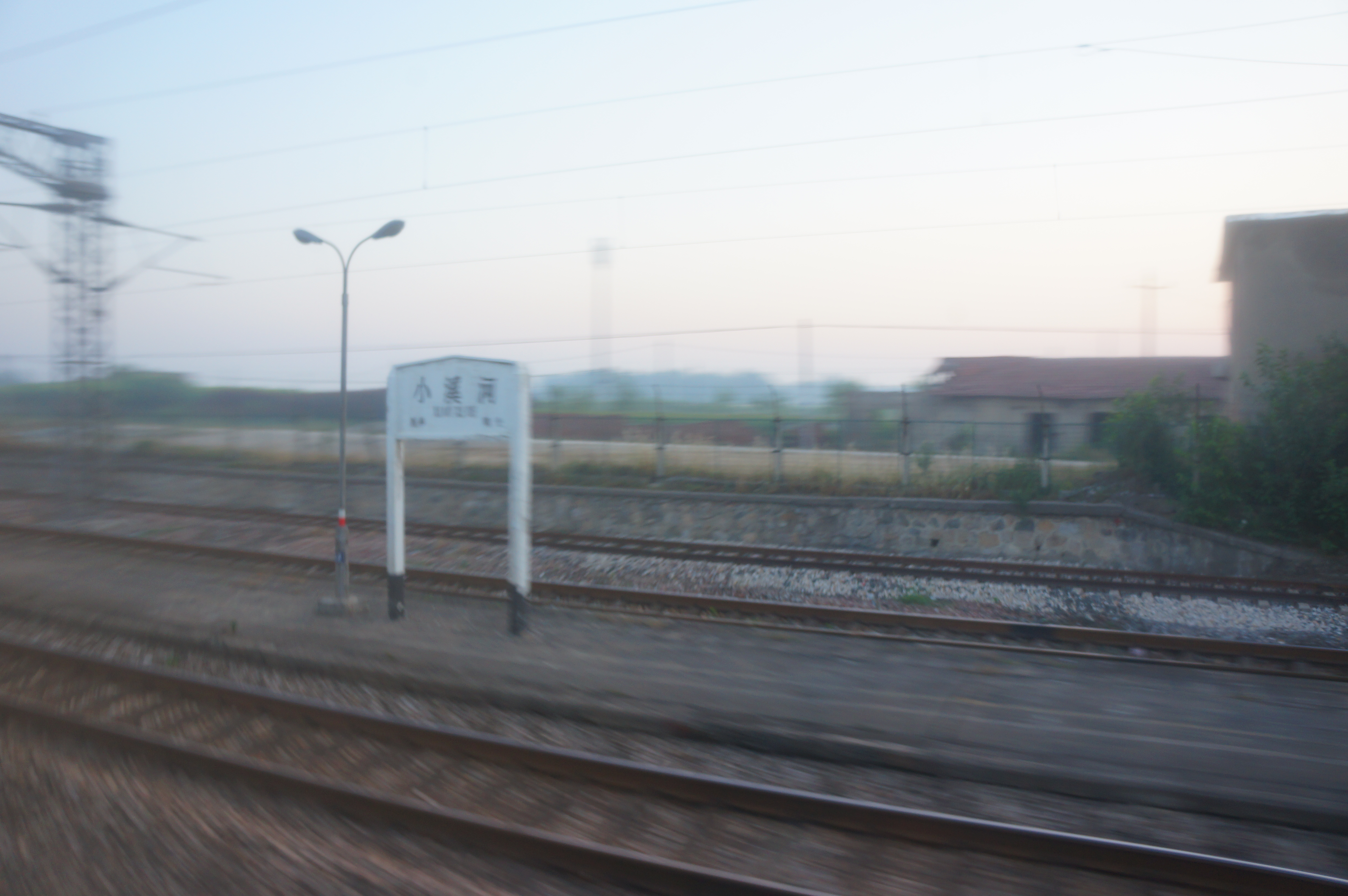 201705 Nameboard of Xiaoxihe Station